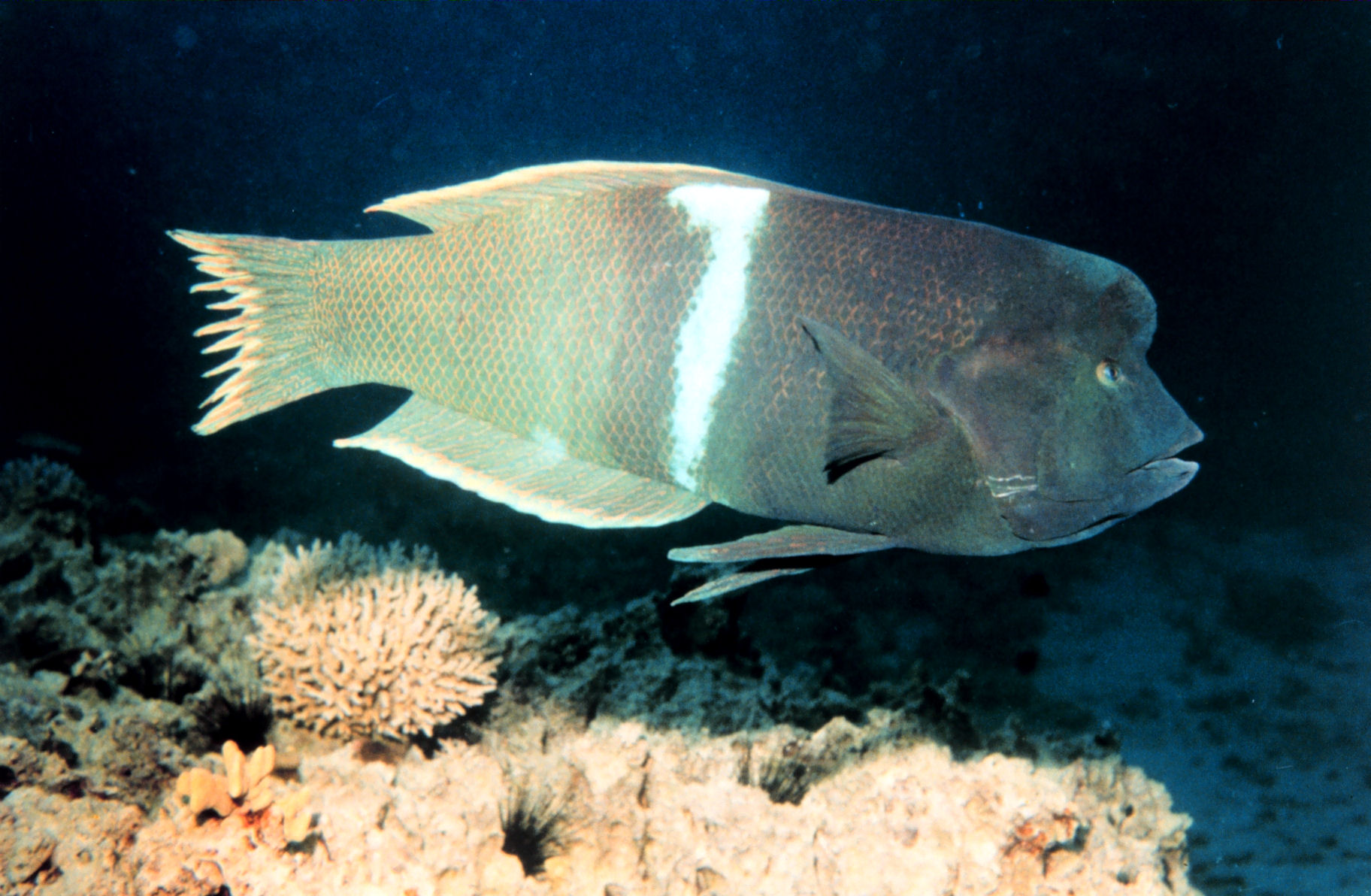 Coris aygula in the Gulf of Aqaba, Red Sea